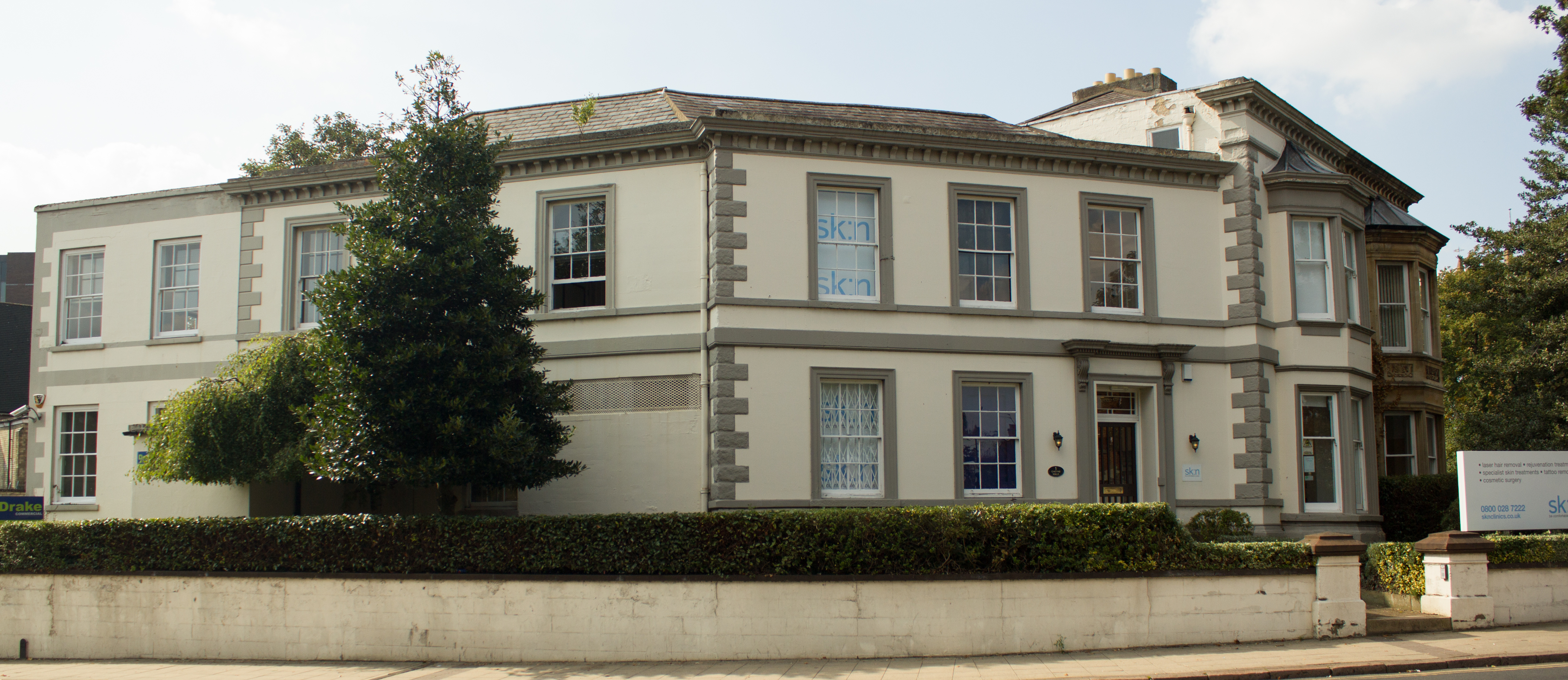 House mentioned in Pevners Northamptonshire in the Buildings of England series